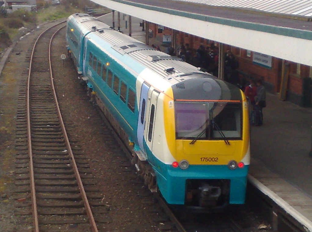 British Rail Class 175 in Arriva Trains Wales livery, photographed from footbridge at Llandudno Junction (cropped from original)